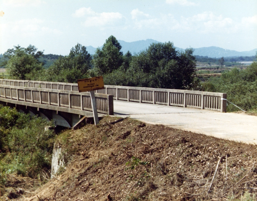 MDL sign the southern end of the Bridge of No Return, by the Korean military.